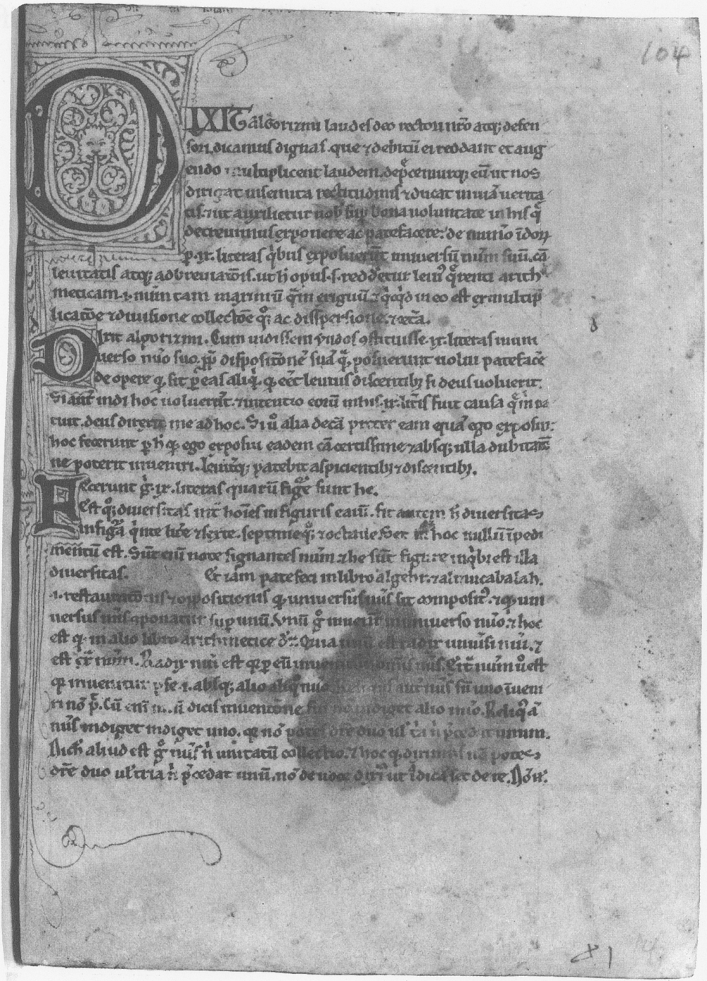 "Page from Latin manuscript (Cambridge, University Library, Ii. 6.5.), beginning with 'DIXIT algorizmi', Baldassarre Boncompagni invented the title 'Algoritmi de numero Indorum' in 1857"